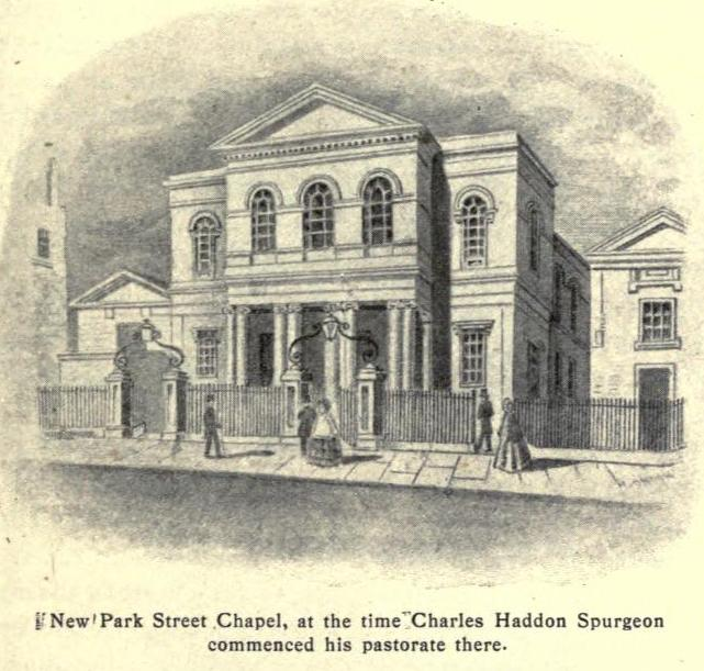 New Park Street Chapel, Southwark, England